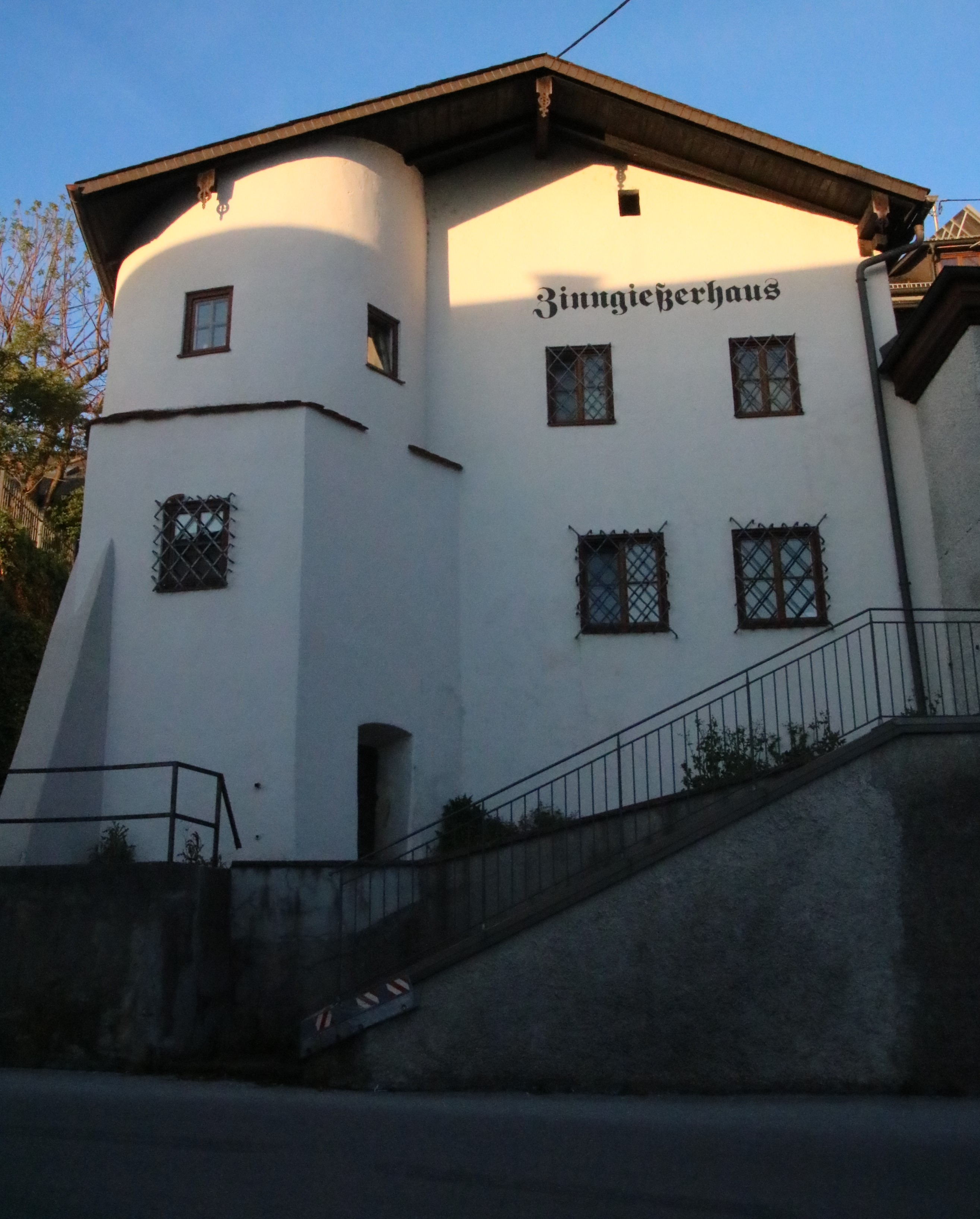 Building in Mattighofen